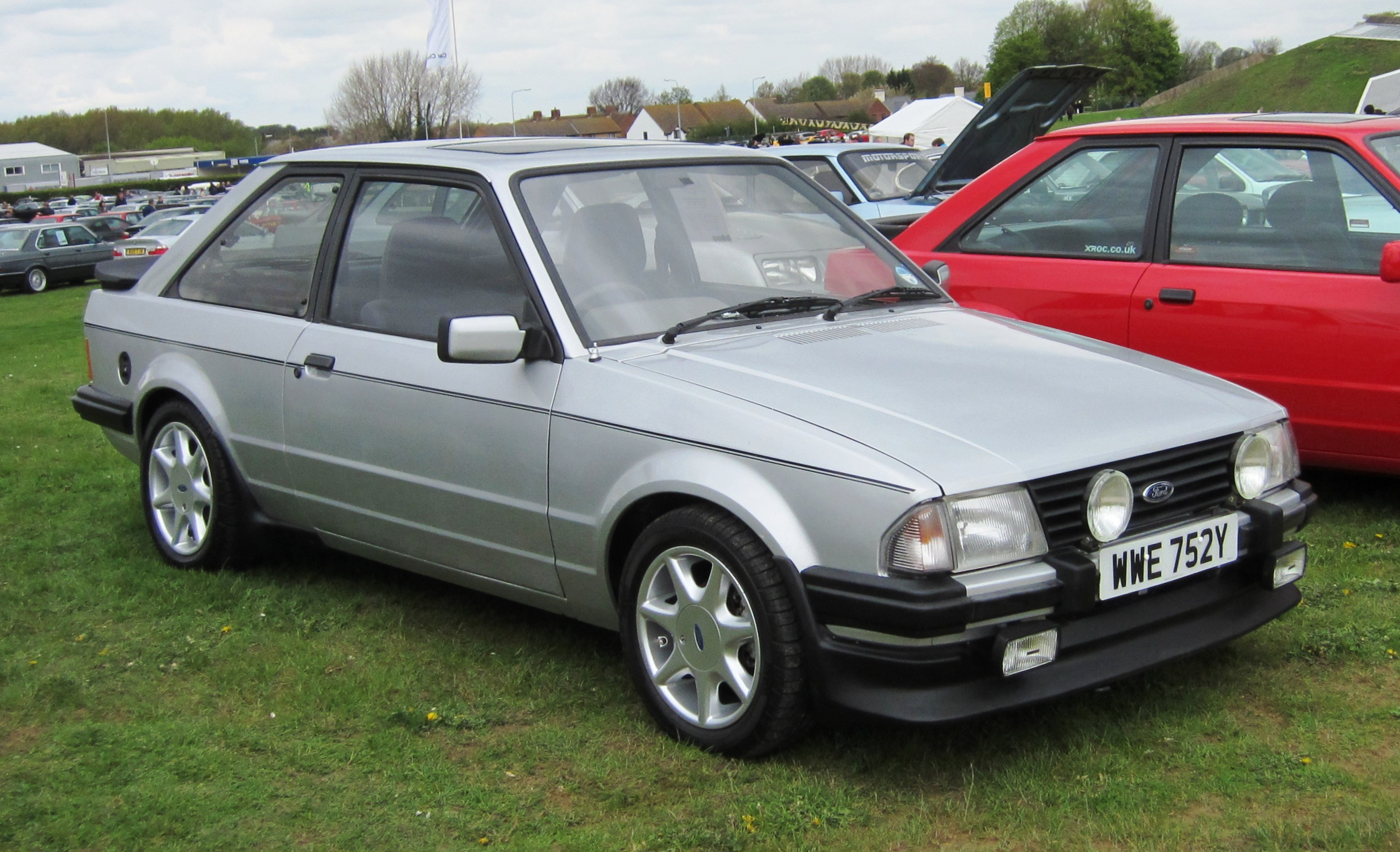 Ford Escort XR3 1982, tuned car with aftermarket alloys, front spoiler, and clear turn signal lenses.